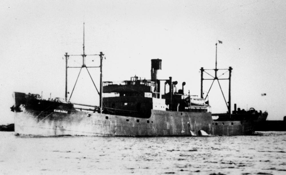 Union Steam Ship Co of NZ's 2,830 GRT cargo steamship Kairanga